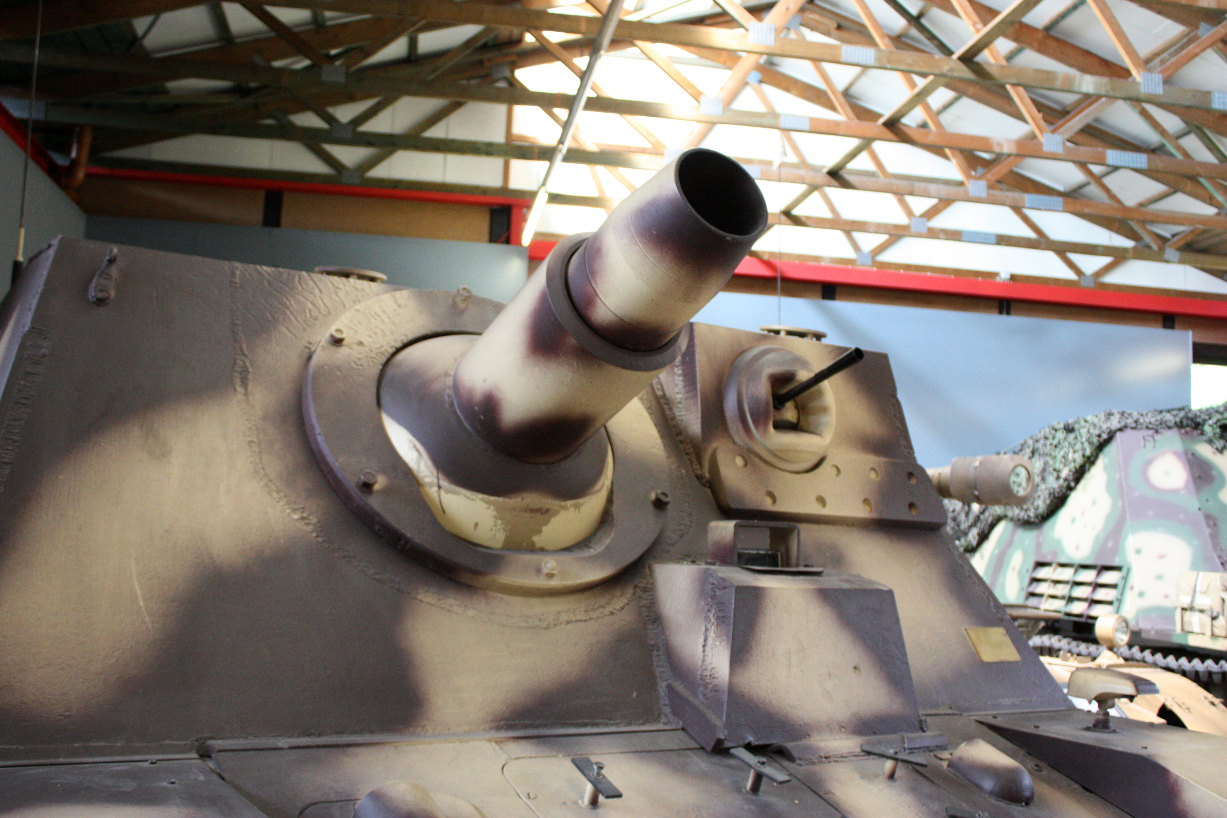 German Tank Museum